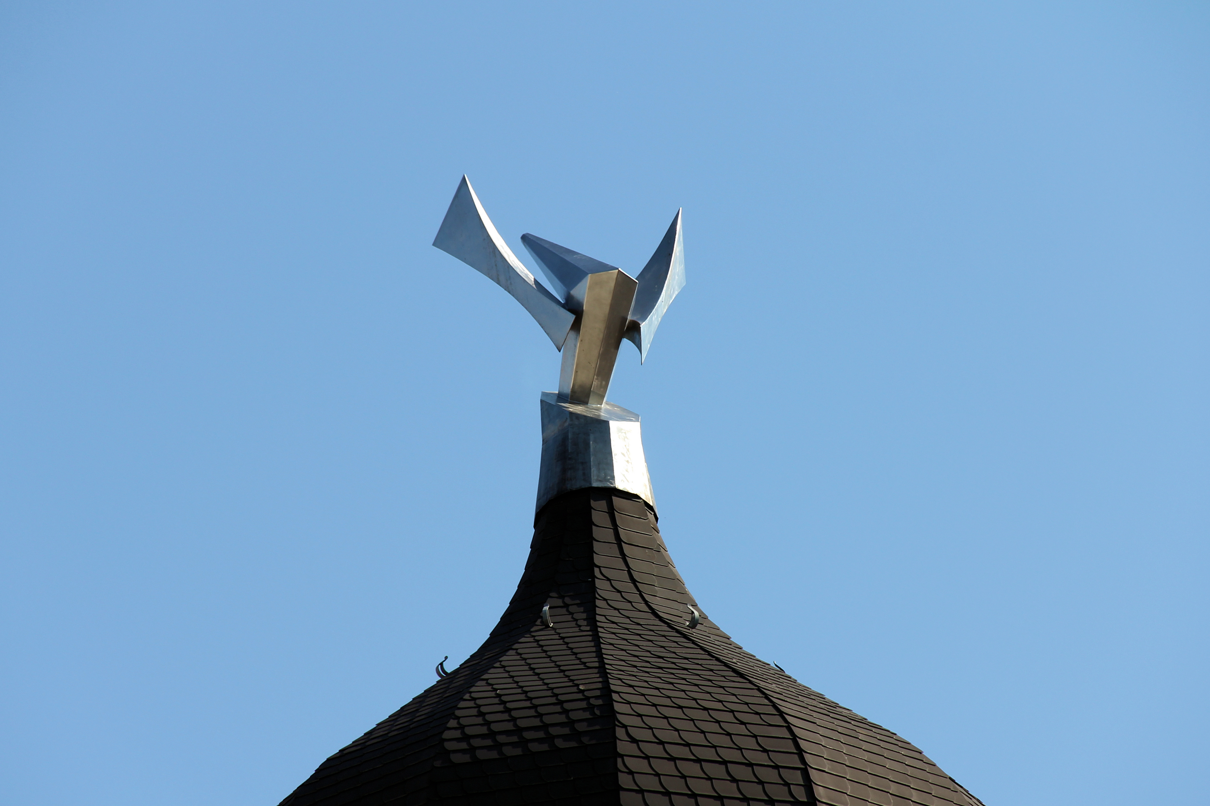 Memorial, Turmspitze mit Flügeln von Karl Menzen, Kaiserdamm 6a, Berlin-Charlottenburg, Germany Koordinate:52°30′39″N 13°17′31″E / 52.51083°N 13.29194°E